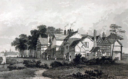 Steel line engraving on paper of Hulme Hall, Manchester, England, published in Lancashire Illustrated In A Series Of Views, H. Fisher Son And Jackson. (1831)